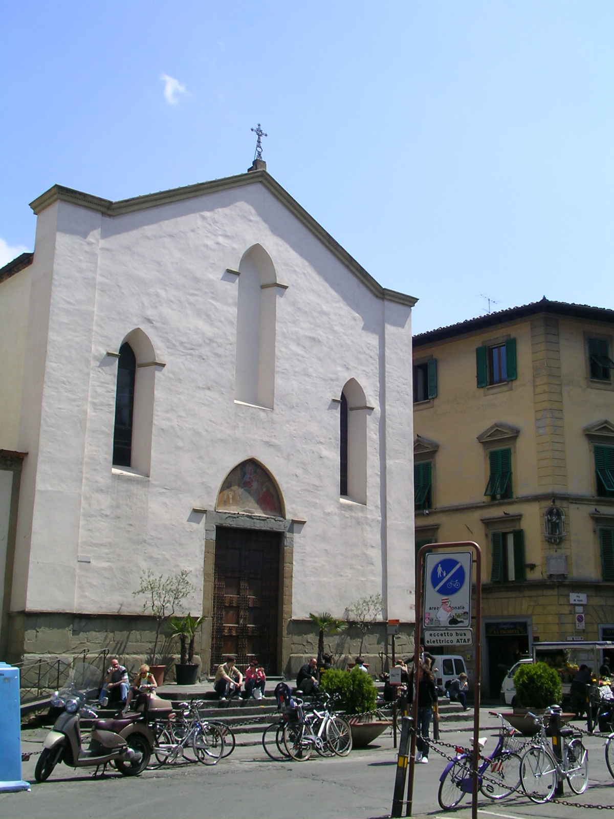 Sant'Ambrogio Church front view in Florence, Italy